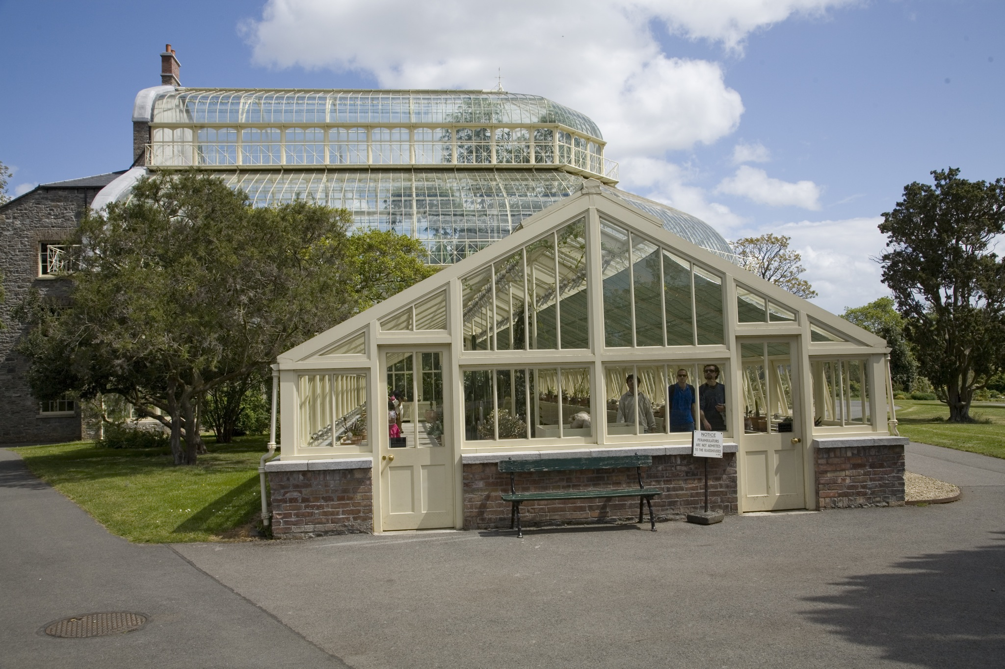 The Irish National Botanic Gardens (Irish: Garraithe Náisiúnta na Lus) are located in Glasnevin, 5 km north-west of Dublin city centre, Ireland. It was founded in 1795 by the Royal Dublin Society and has grown to hold 20,000 living plants and many millions of dried plant specimens, contained in gardens that include architecturally notable greenhouses. The National Herbarium is also housed at the National Botanic Gardens. It contains a collection of roughly 600,000 pressed plants, collected over the garden's two-hundred-year history. The gardens contains noted and historically important collections of orchids. The newly restored Palm House houses many tropical and subtropical plants which are open to the public year round. The gardens cover 195,000 m² (19.5 hectares) including part of the River Tolka floodplain. As well as being a tourist destination and an amenity for nearby residents, it also serves as a centre for horticultural research and training.